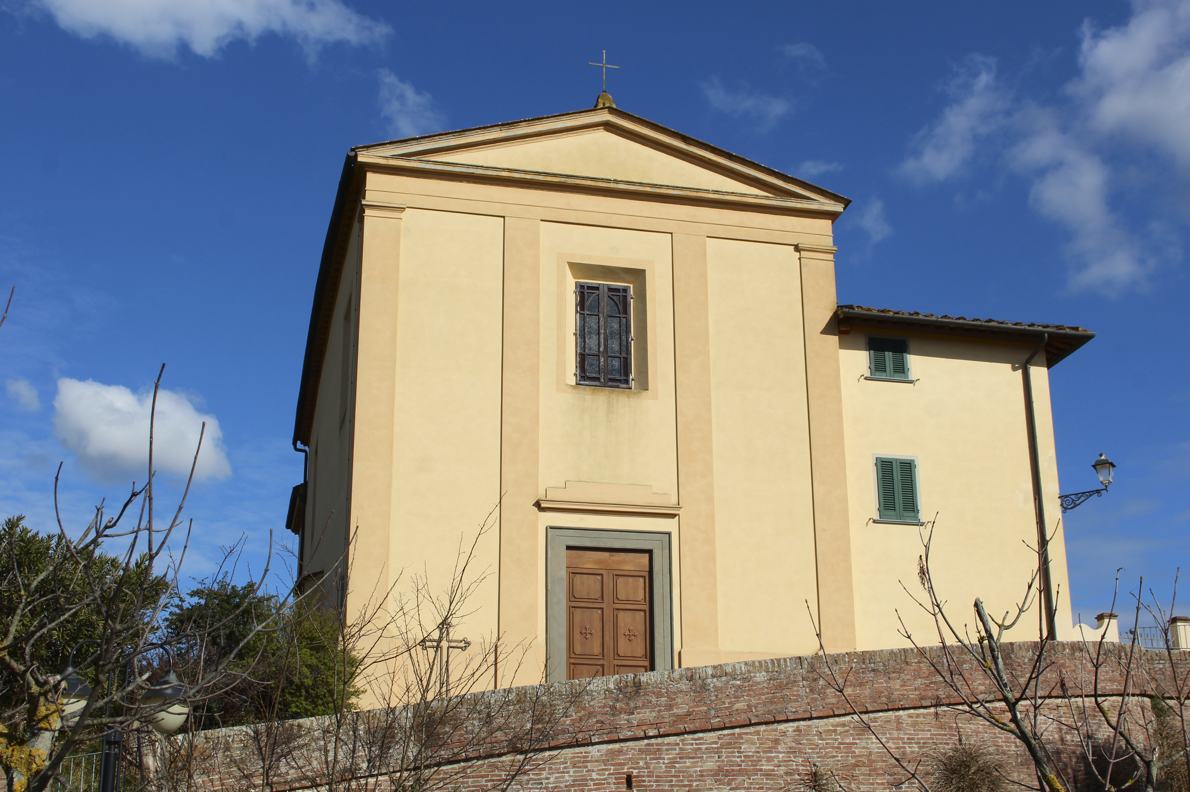 church San Pietro alle Fonti, La Scala, hamlet of San Miniato, Province of Pisa, Tuscany, Italy